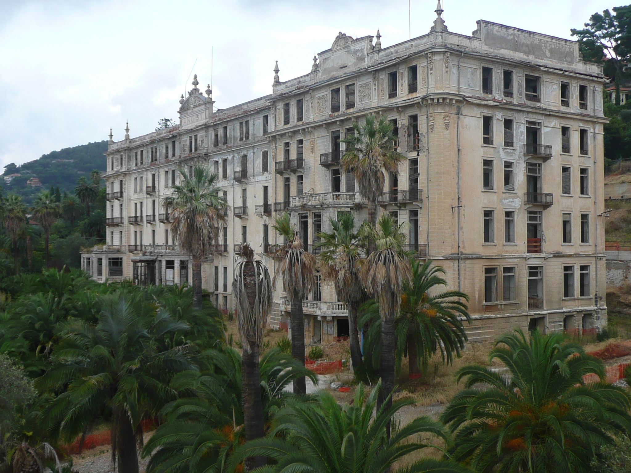 Hotel Angst August 2013